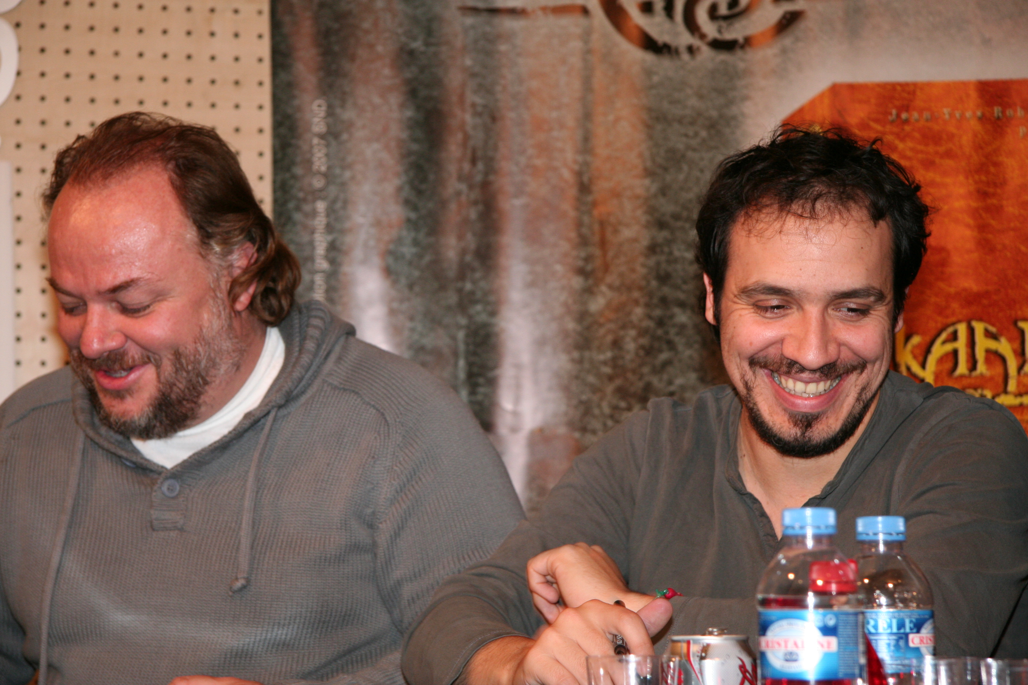 Rendezvous with the actors of the television serie Kaamelott at Fnac Saint-Lazare (Paris, France).